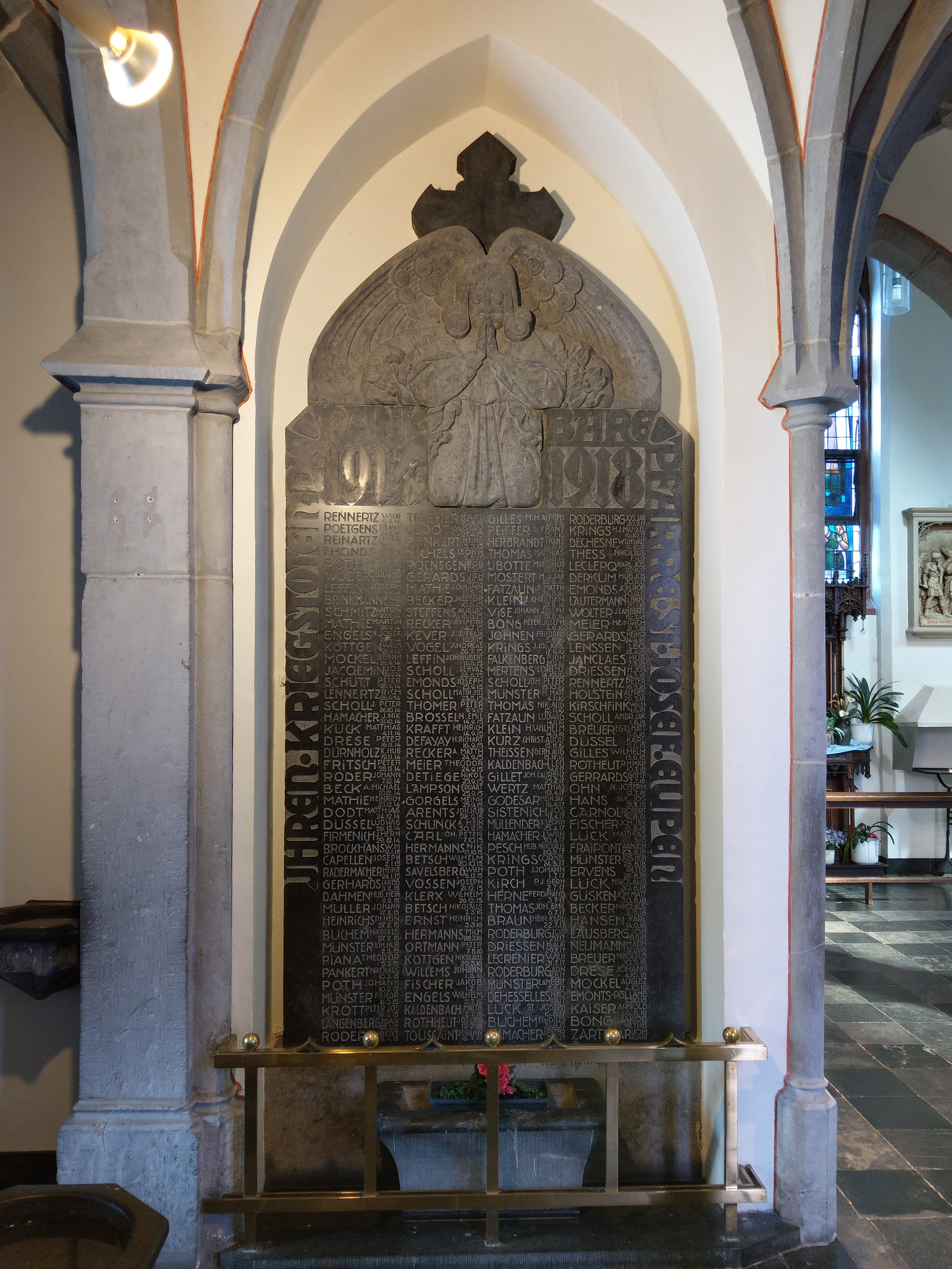 Church with elegant neo-Gothic silhouette. Built in the years 1855 to 1863